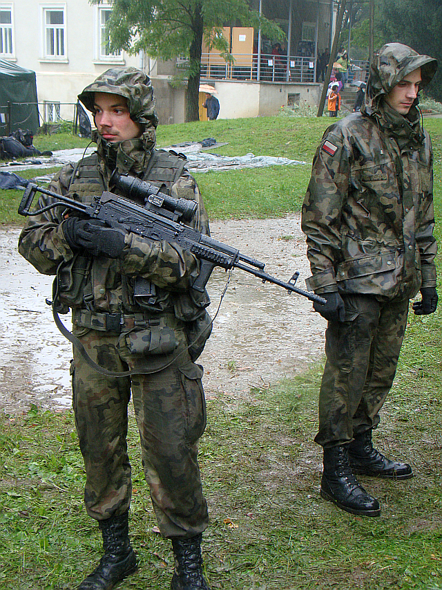 Polish soldiers from the 6. Air Assault Brigade